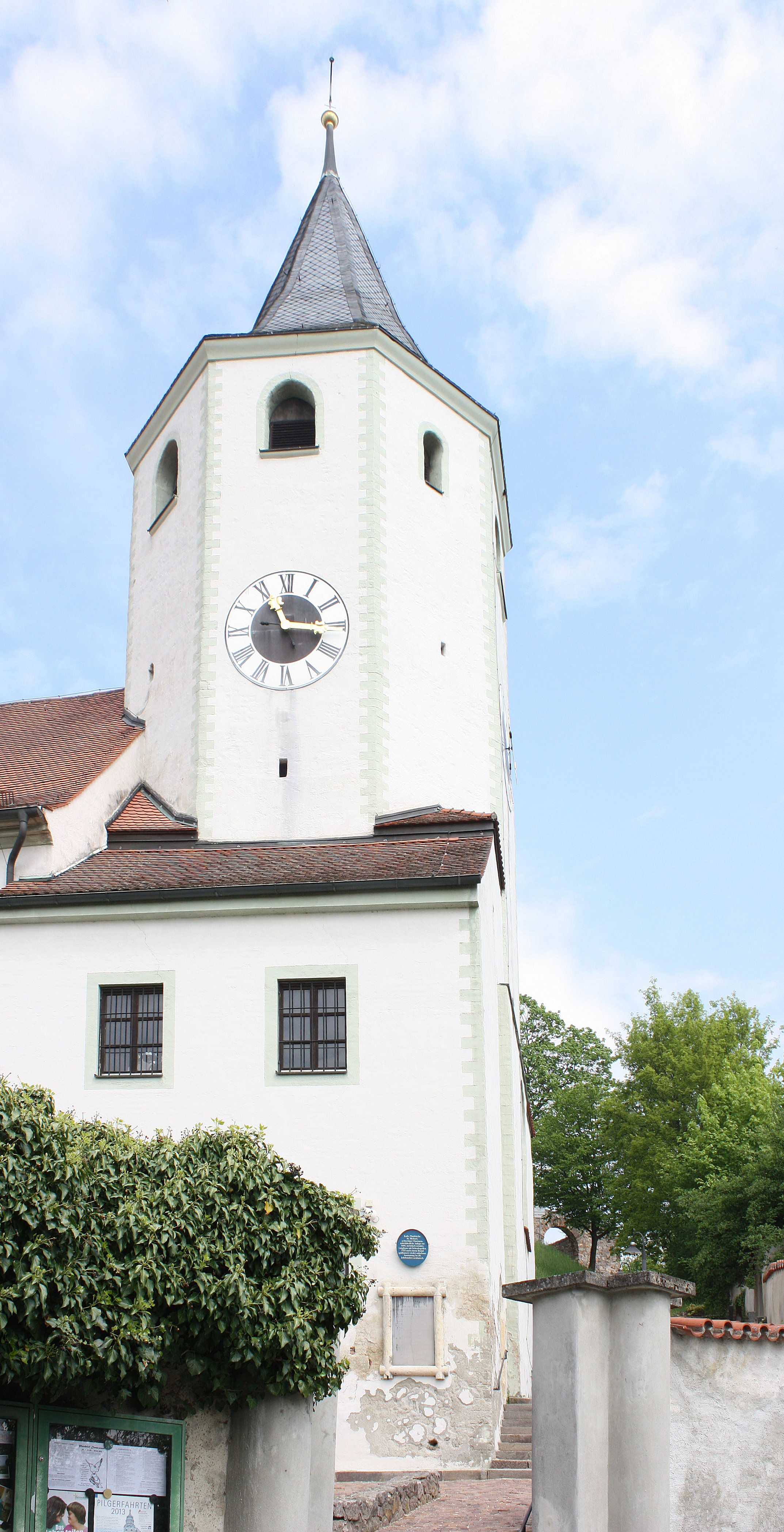 Donaustauf, the church St. Michael